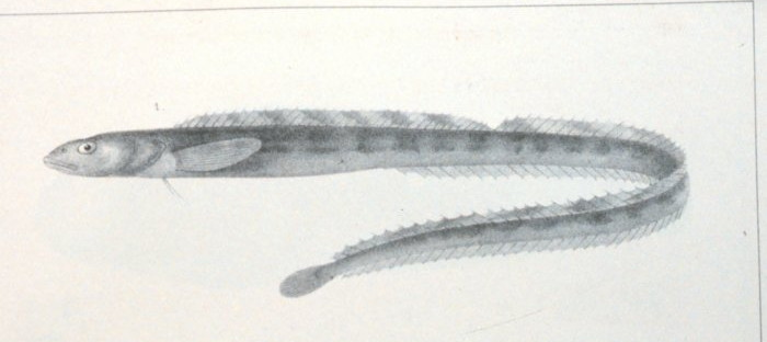 Plate XVII of "History of the Fishes of Massachusetts" by David Humphreys Storer, 1853. Lumpenus lampretaeformis, Syn. Blennius serpentinus